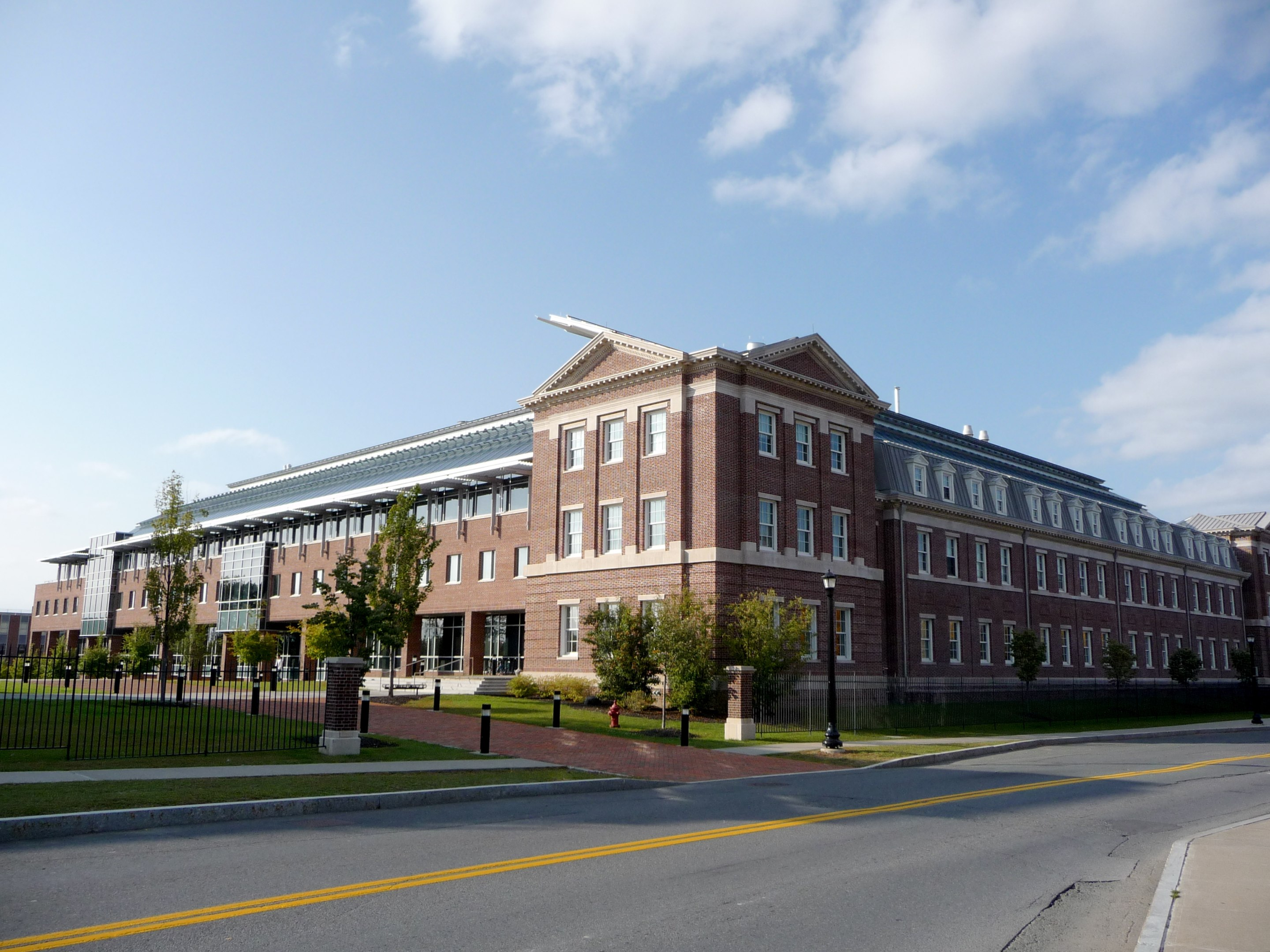 Biotechnology Center at RPI, Troy, NY